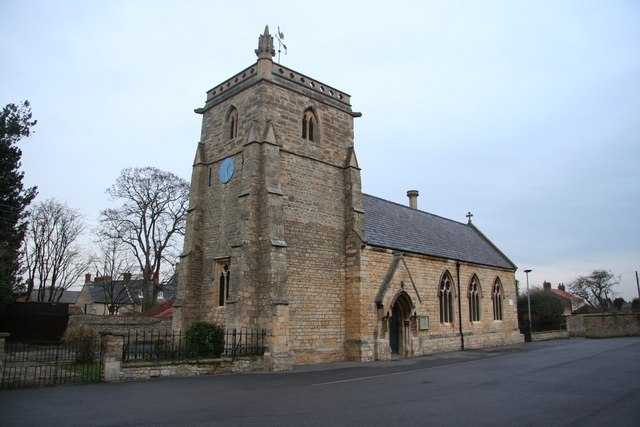 St.Thomas' church A curious building with an interesting history. The tower is clearly medieval and has a Norman tower arch with waterleaf capitals, but was in decay by 1619 when Fen Drainage Adventurer Thomas Garrett founded a chapel of ease to Washingborough. In 1865 Michael Drury adapted the fabric to become the village school, a function continued until the mid-1970s. It is now a place of worship and the Thomas Garrett Heritage Room